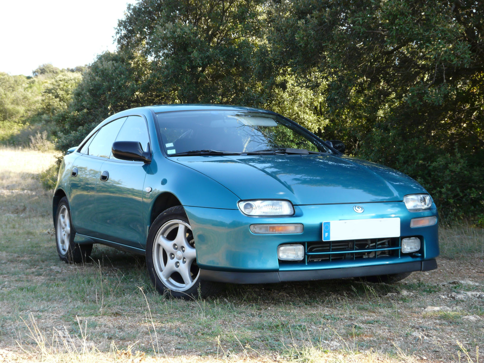 Mazda 323F BA/Lantis V6 GT